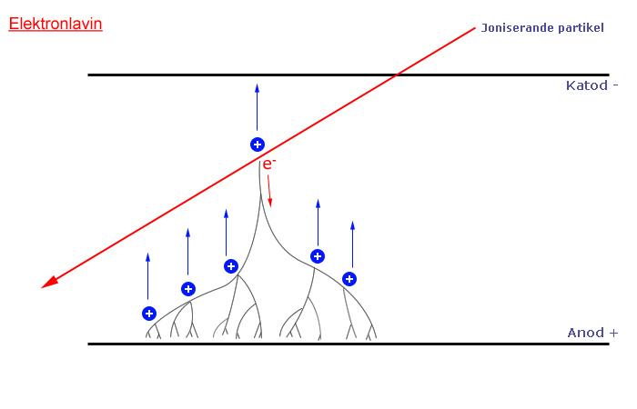 An incoming ionizing particle is causing an electron avalanche inside a Geiger-Müller tube.